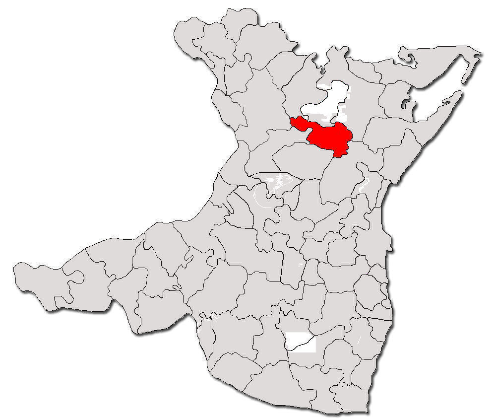 Contour of Targusor commune